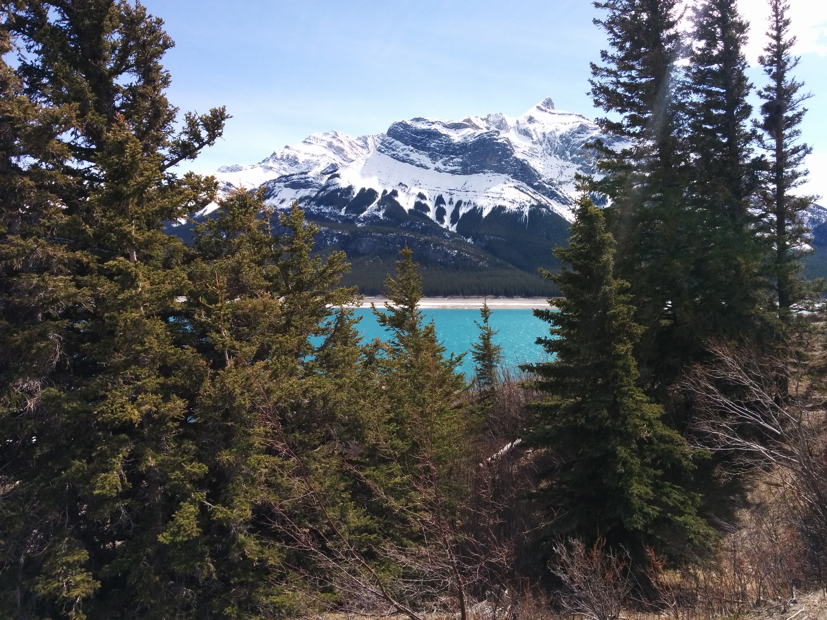 Crimson Lake Provincial Park (Rocky Mountain House) This photo was taken in a protected area in Canada, Wikidata item Crimson Lake Provincial Park (Q5185702)